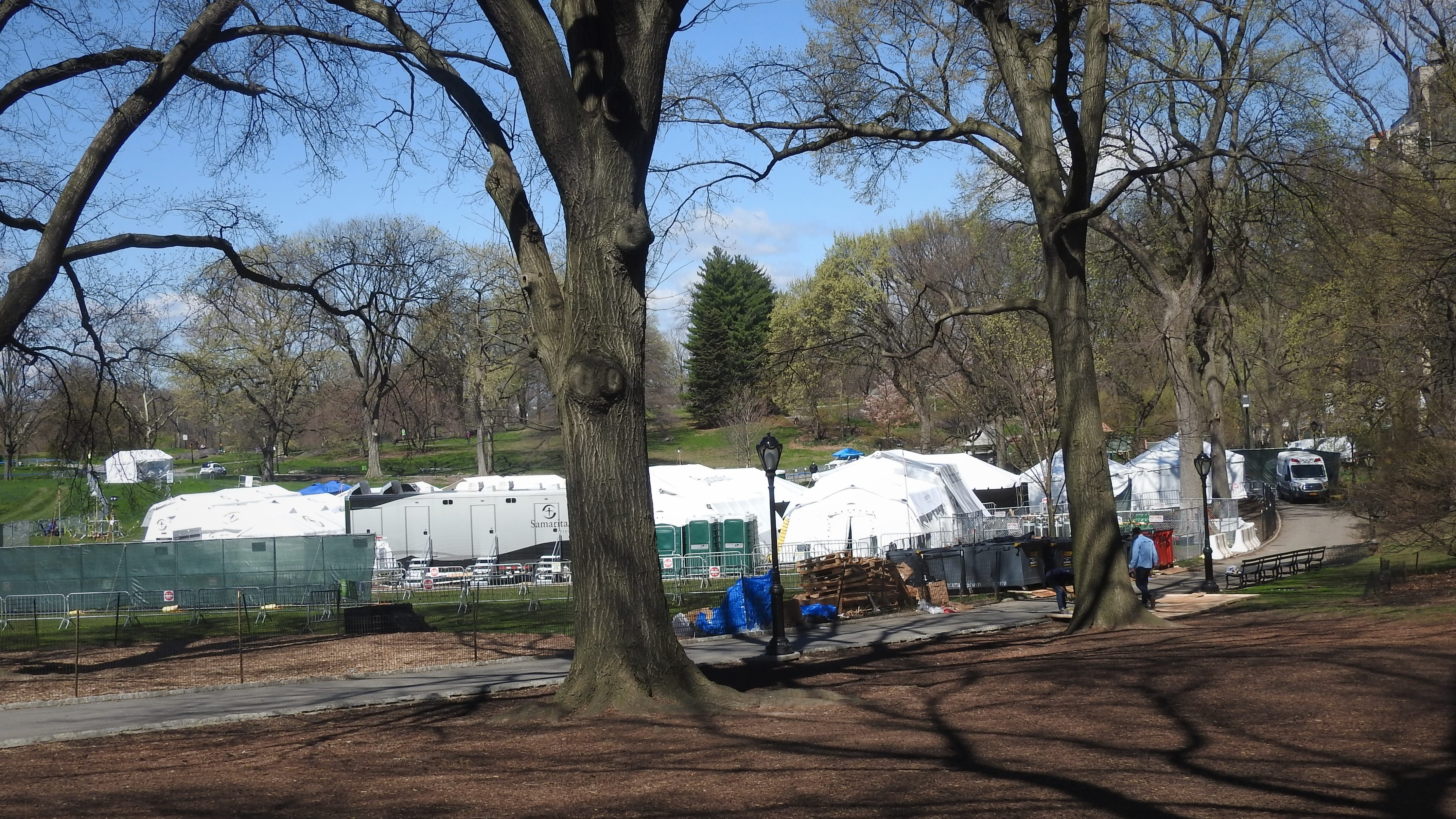 Looking north at emergency hospital in Central Park